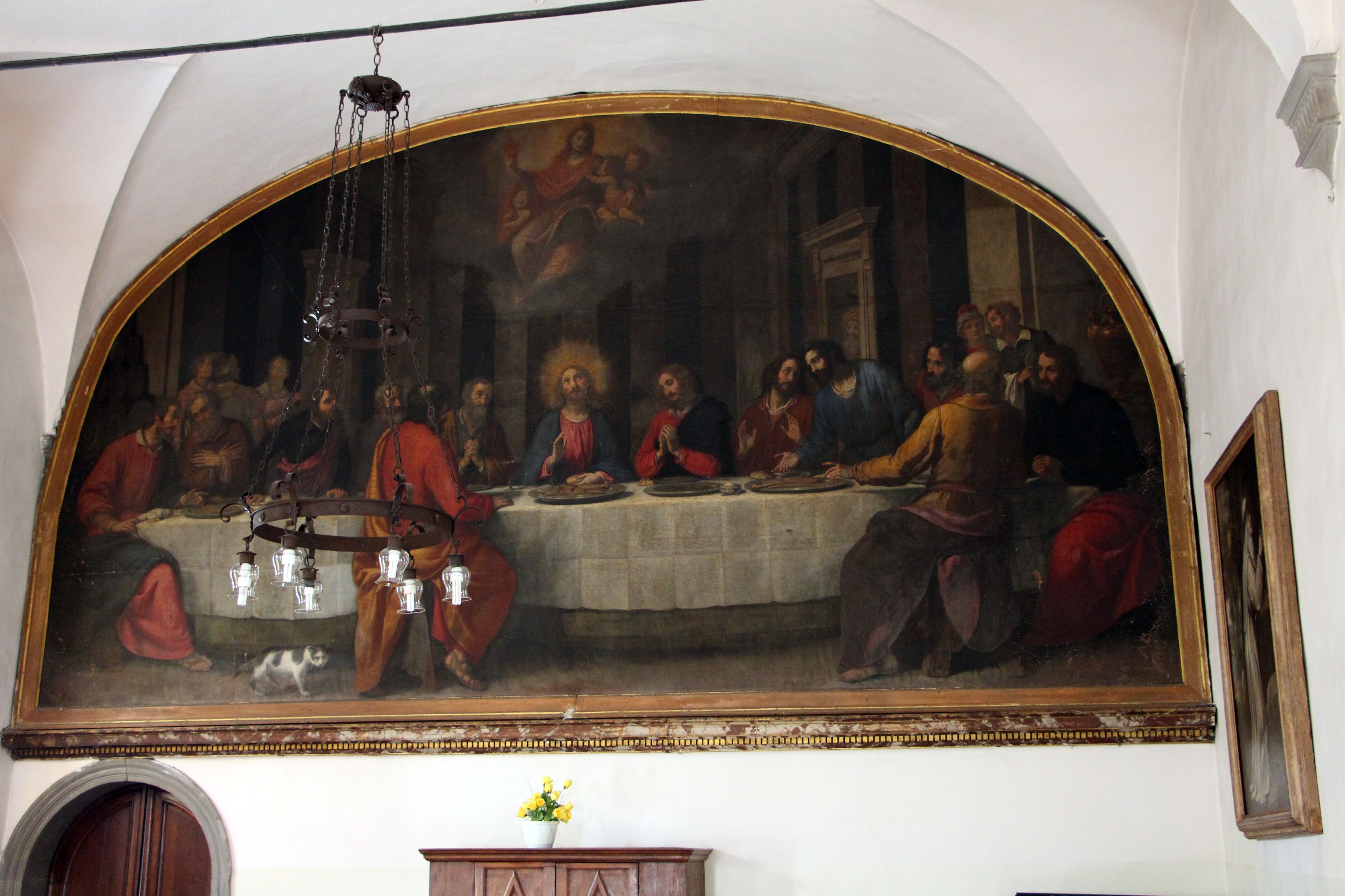 Last Supper by Matteo Rosselli